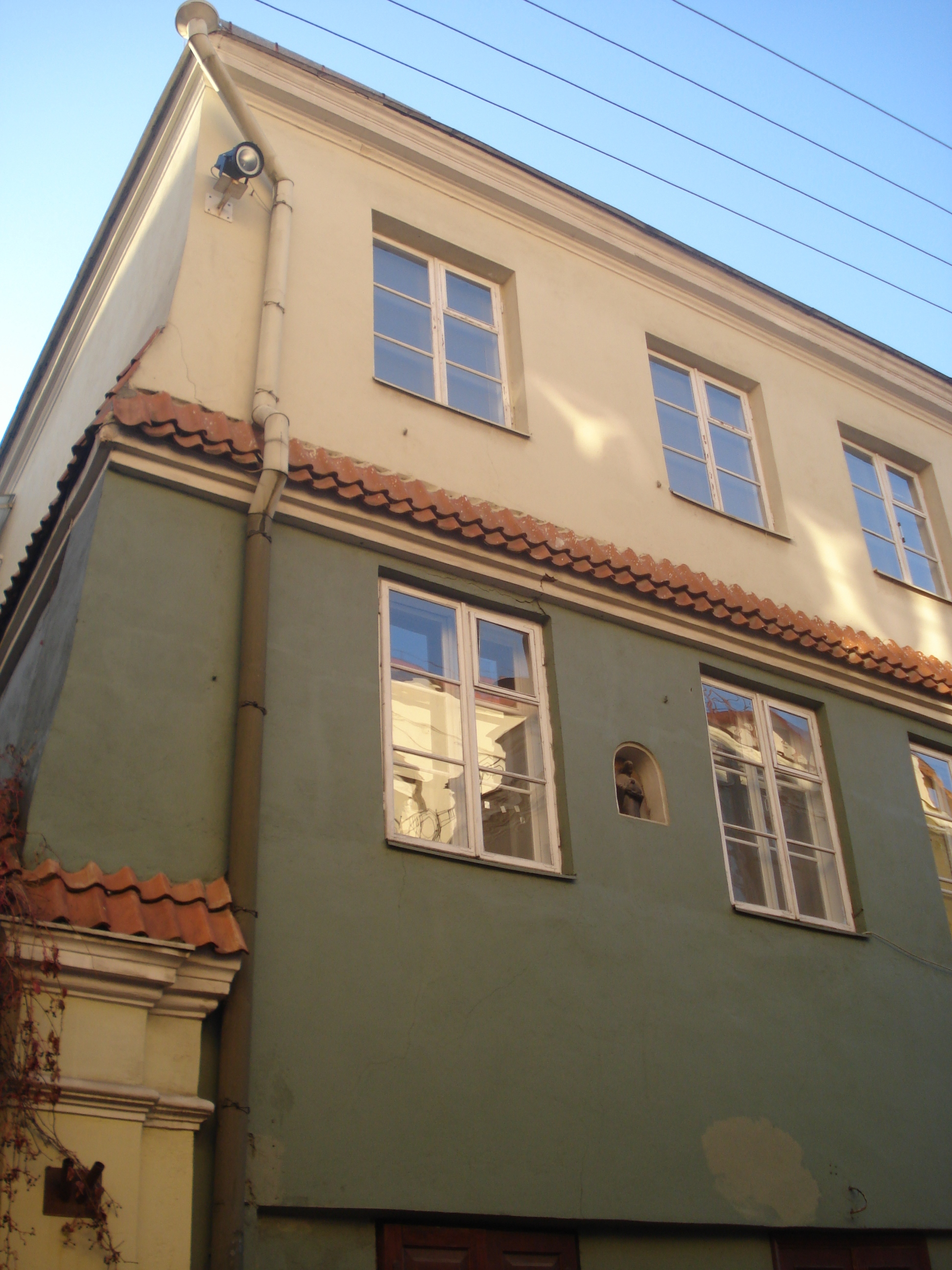 The house of Hieronim Stroynowski. Švento Jono g. 9